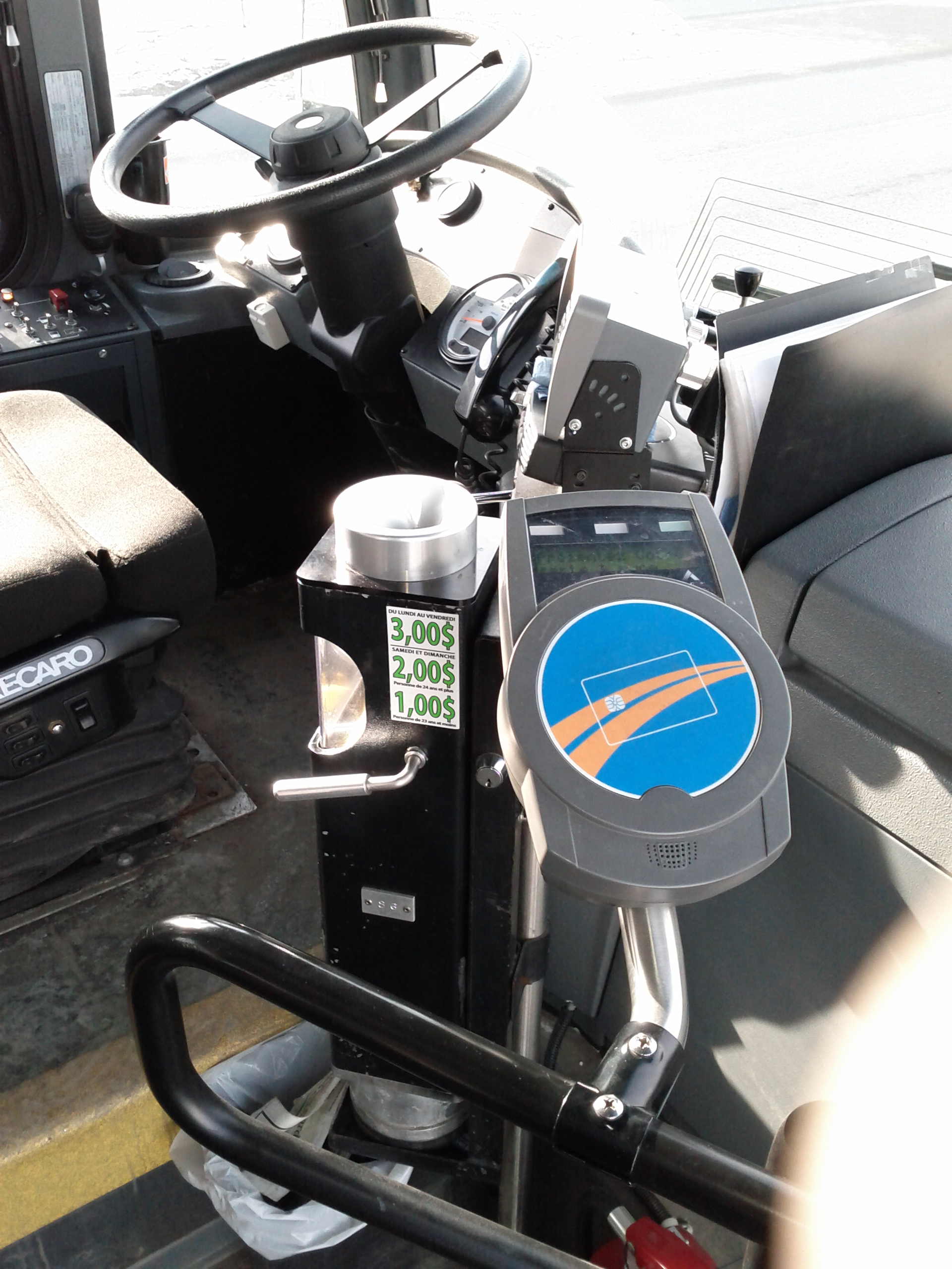 Fare box and OPUS card reader of a Société de transport de Lévis 2012 Nova Bus LFS (bus 1204).